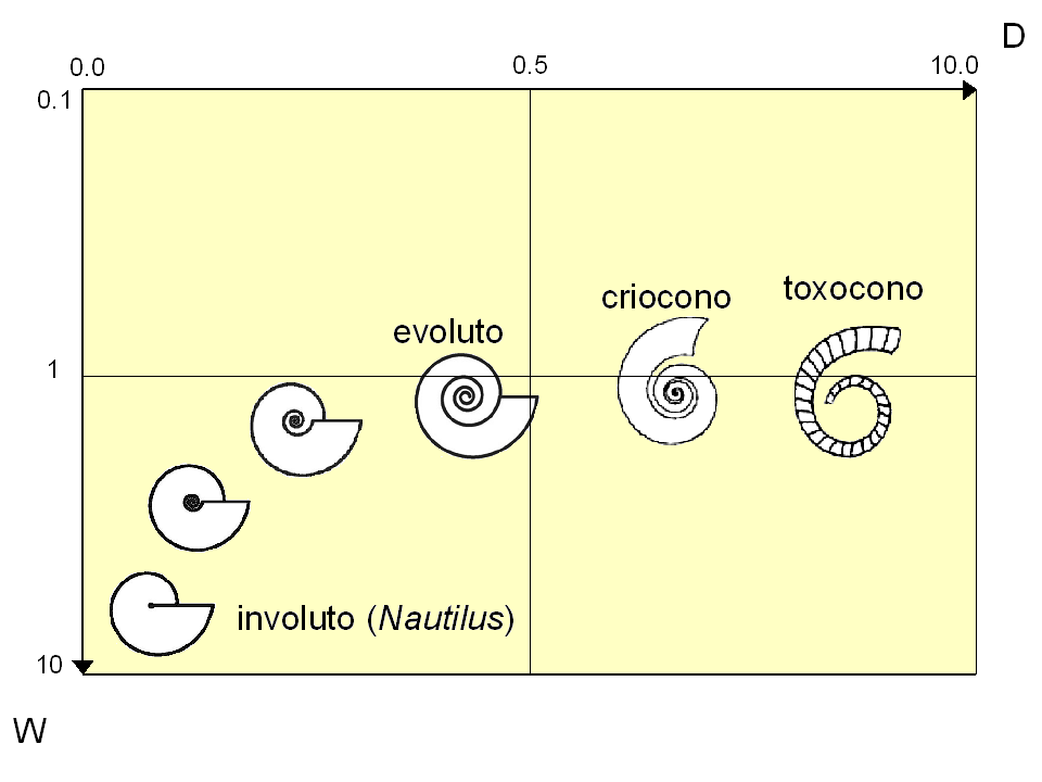 Diagram of W (whorl expansion rate) vs. D (distance of generated curve from coiling axis), describing ammonite coiling. after Raup (1962), simplified.